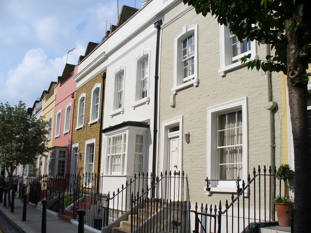 Bywater Street, off King's Road Upmarket 3-storey brick terraced housing, just yards from Chelsea's main thoroughfare.